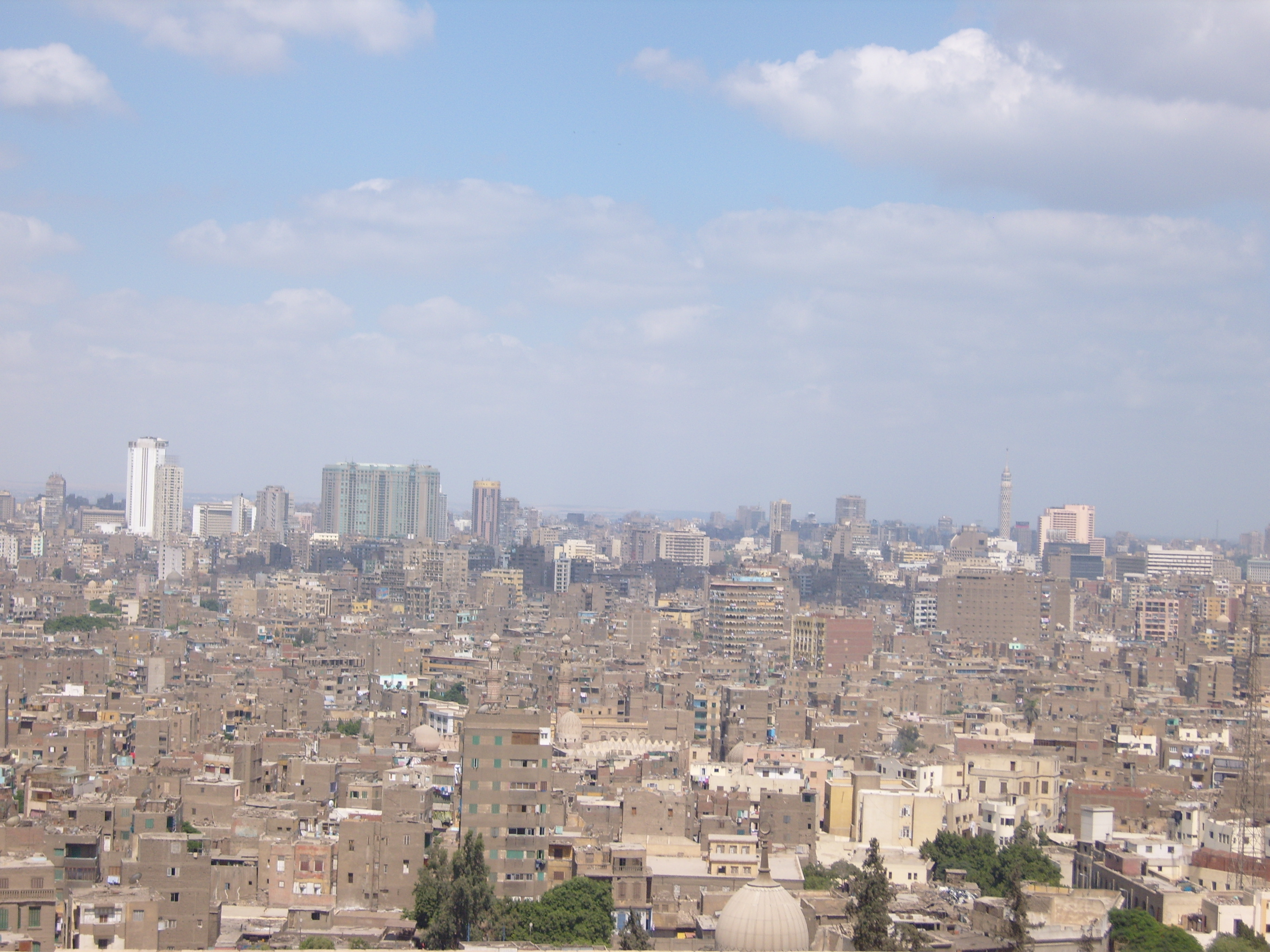 A view over Cairo from the Citadel.